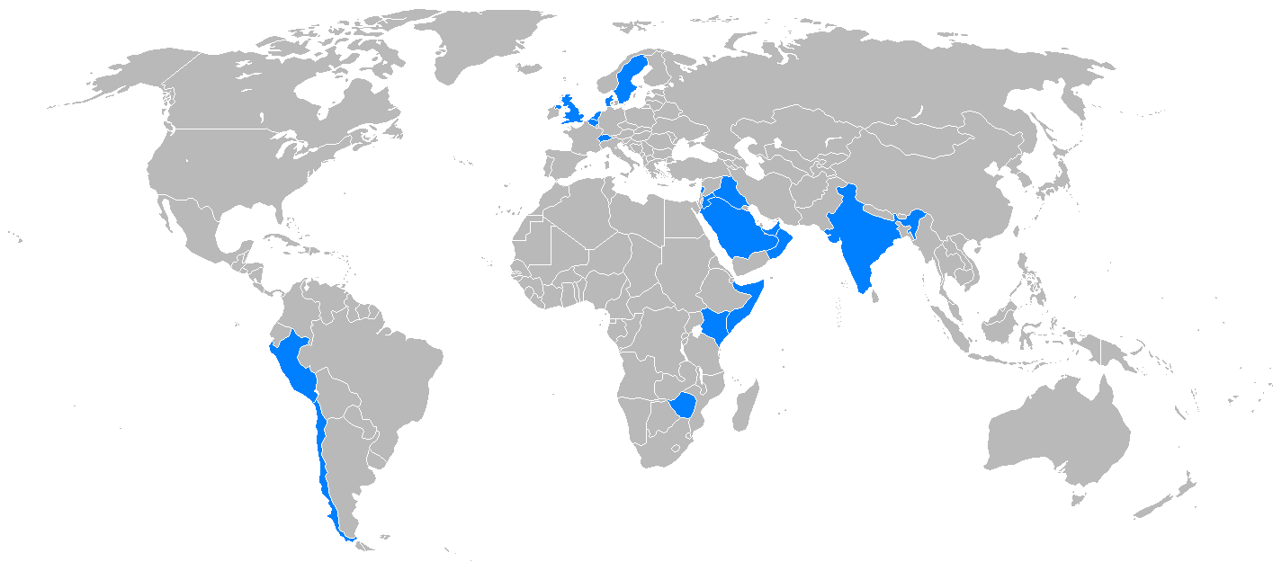 Map of the countries that used the Hawker Hunter